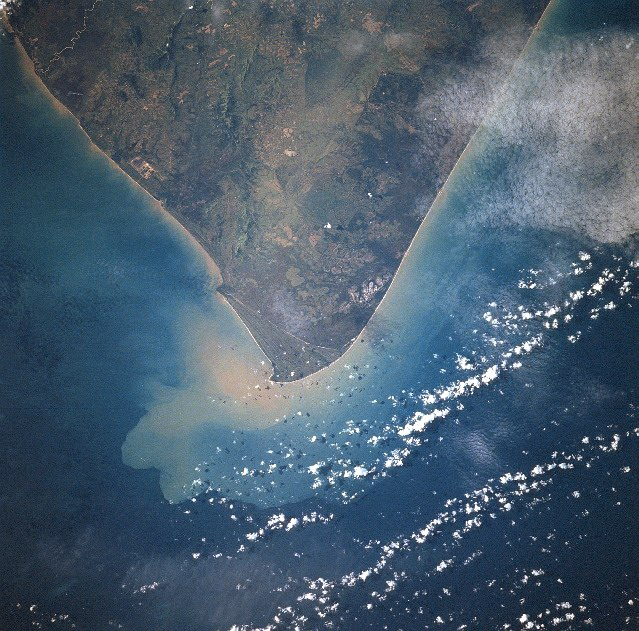 Cape Selatan, Kalimantan, Indonesia "The southern most point on the island of Borneo (Kalimantan), Cape Selatan, is visible in this near-nadir view. Once this whole region was a swamp, but the land area north of the cape is being cleared for rubber plantations and grazing for cattle. The sediment along the coast is from the Barito River to the north (not on image) and from small streams near the tip of the cape where land has been cleared. The forested hills of the southern Besar Range are visible along the southeastern coast midway between the upper center and upper right of the image."